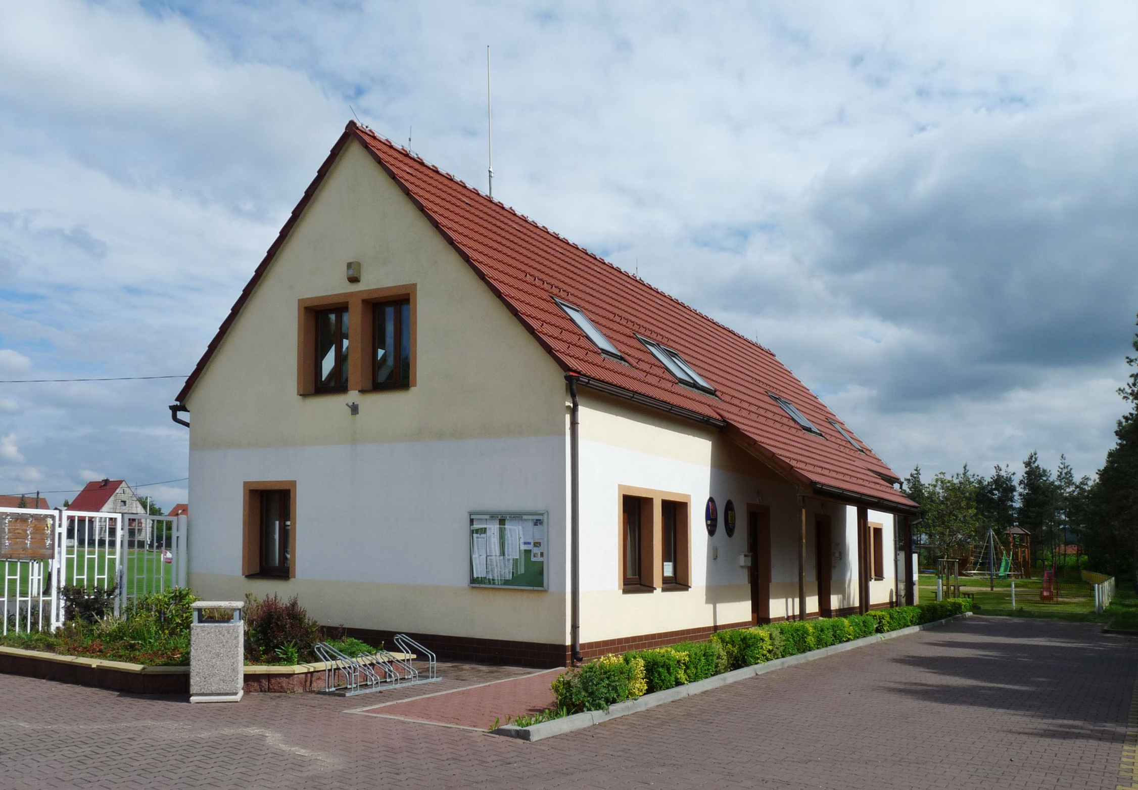 Minucipal office in the munucipality of Vojkovice, Mělník District, Czech Republic.